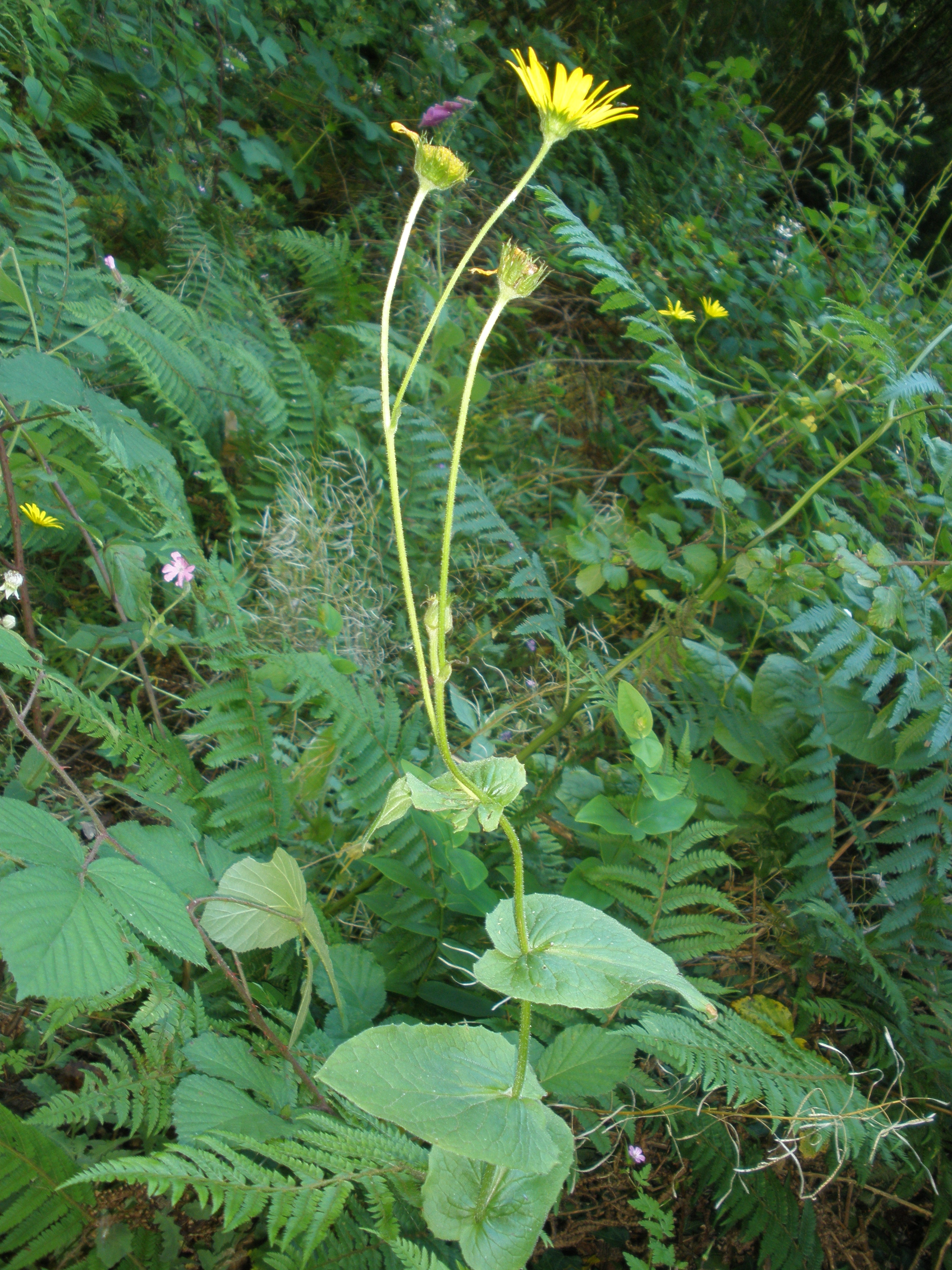 Doronicum carpetanum, Sunbilla, Nafarroa